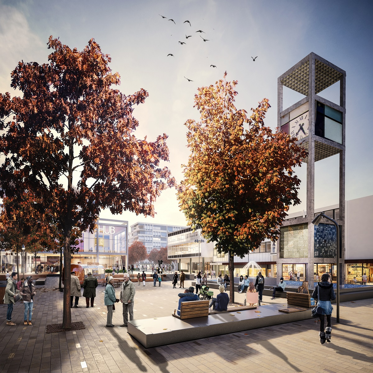 A CGI depicting design proposals for the now underway regeneration of Stevenage Town Square. The images includes Stevenage's iconic Town Square, Clock Tower and Fountain